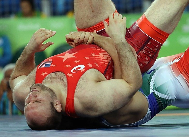 Wrestling at the 2016 Summer Olympics – Men's freestyle 125 kg